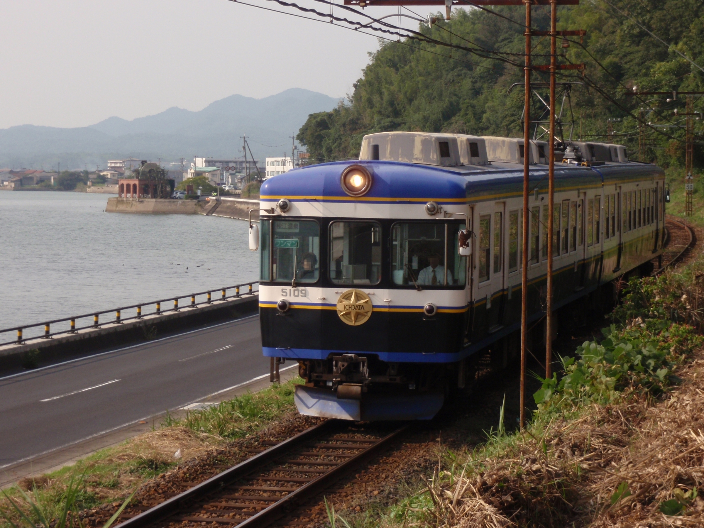 EMU Type 5000 by Ichibata Electric Railway on Kitamatsue Line.